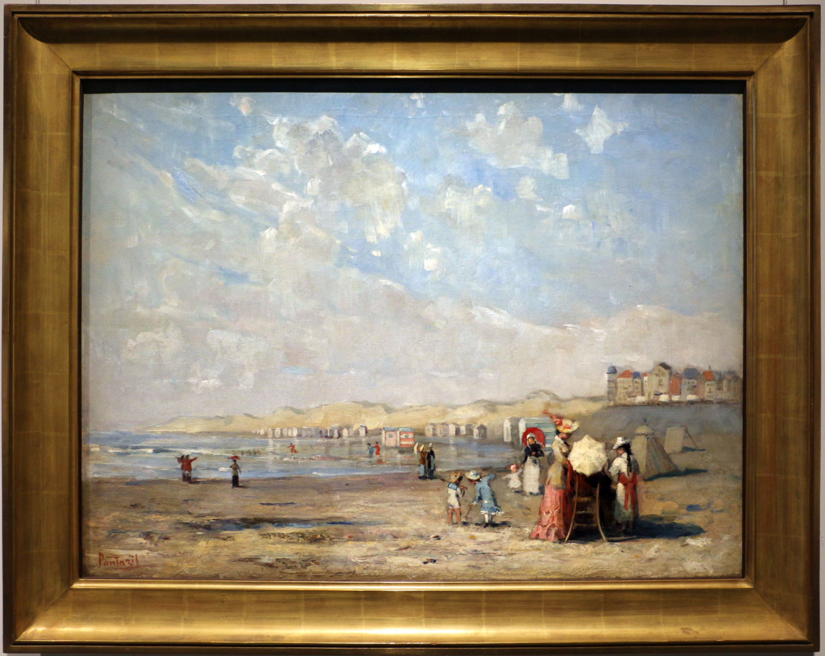 Paintings in the Fin de Siècle Museum